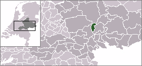 Locator map of Dutch municipalities (LocatieRozendaal.png)